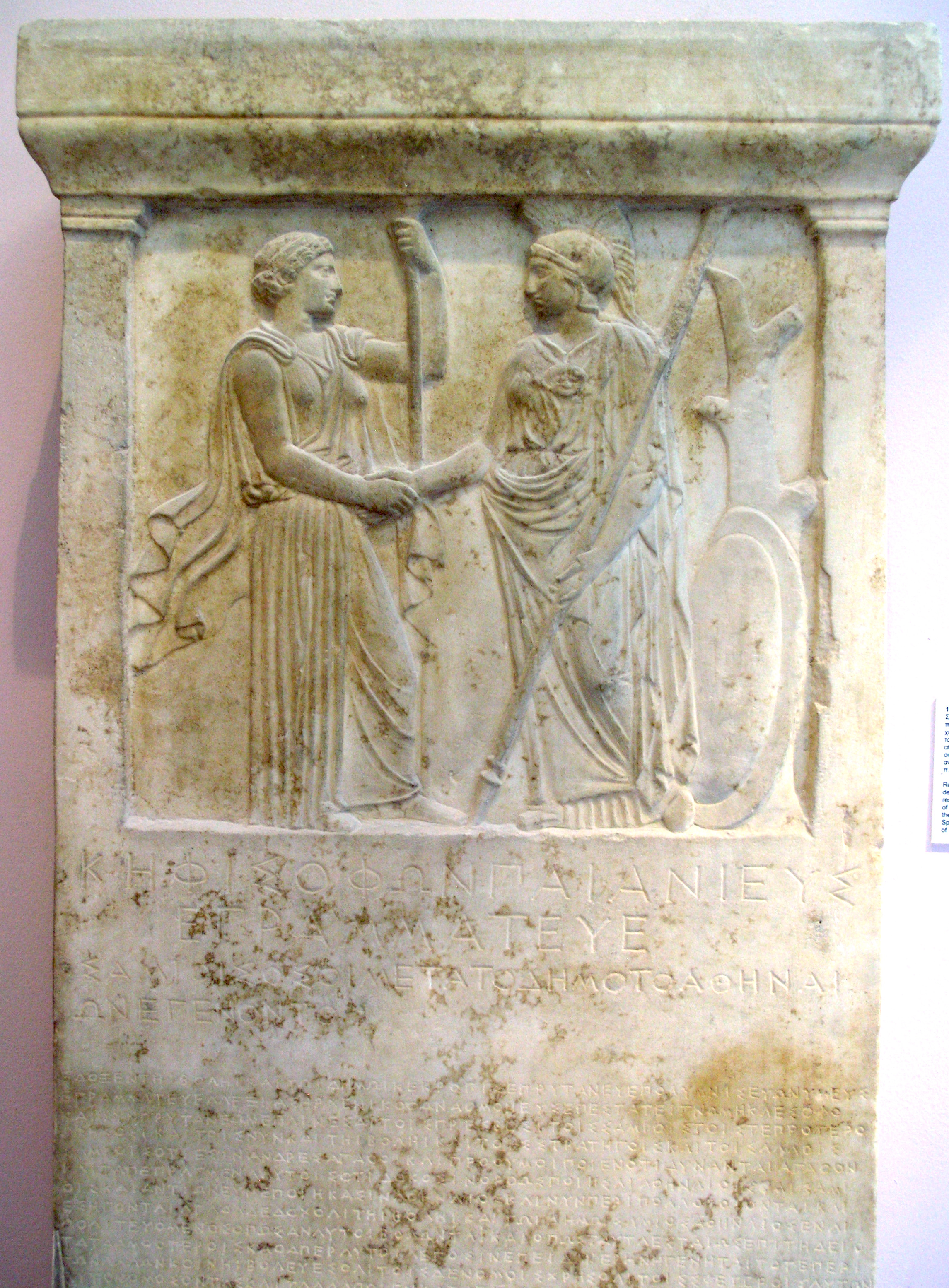 Relief inscribed stele with the Samain honorary decree. The relief depicts Hera and Athena, patron-deities of Samos and Athens respectively, clasping hands. According to the inscription, the demos of the Athenians honors the Samians, because they remained loyal to them, after the defeat of the Athenian fleet at Aigos Potamoi by the Spartians, although their other allies had revolted. The text is a copy of the original decree issued in 405 BC, inscribed in 403/2 BC.